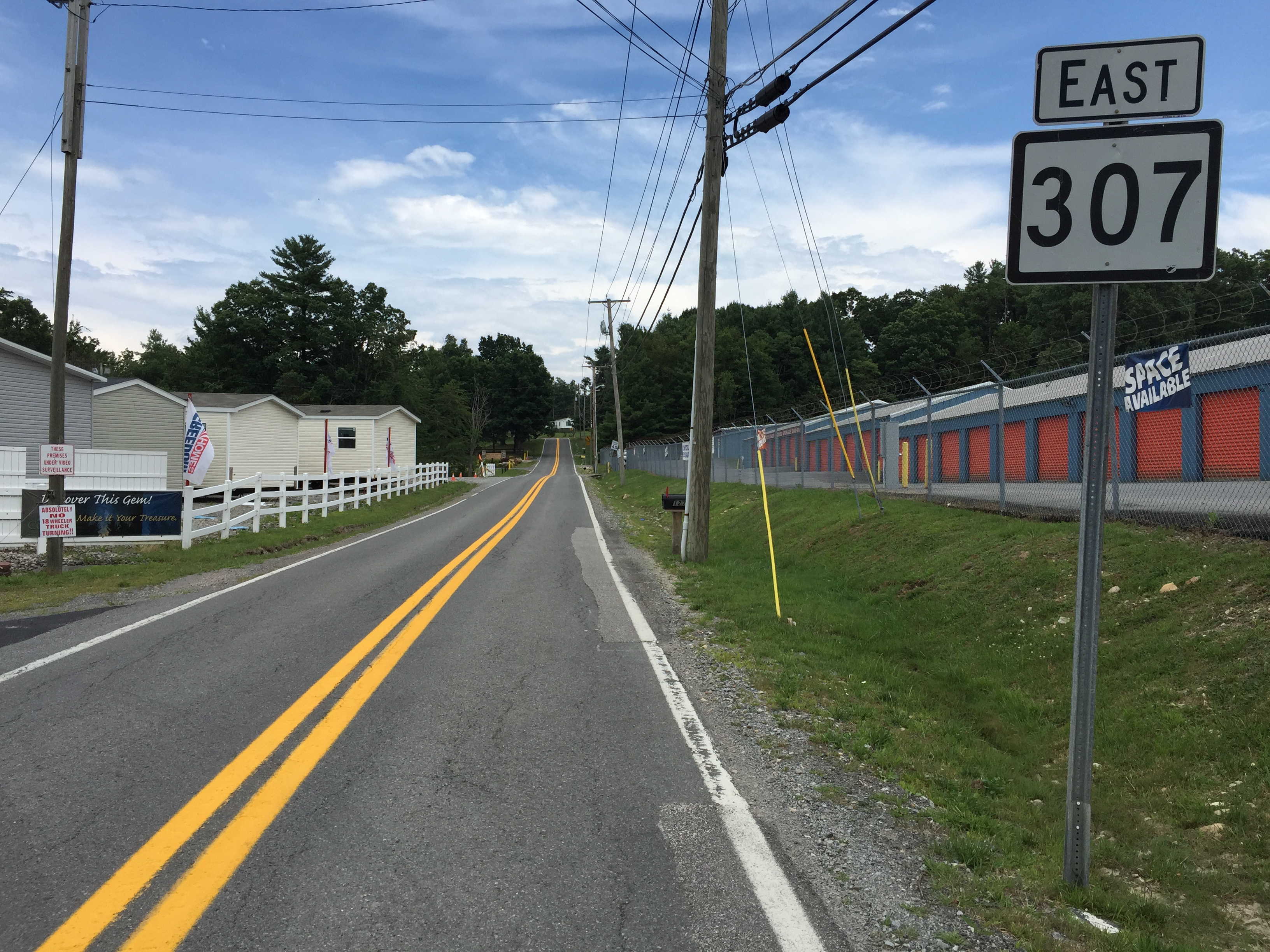 View east along West Virginia State Route 307 (Scott Ridge Road) at Airport Road (Raleigh County Route 9/9) in Clifftop, Raleigh County, West Virginia